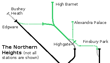 Small diagram of the 1930s Northern Line New Works Programme plan to cross the "Northern Heights". Compare File:Northern Heights diagram.png.